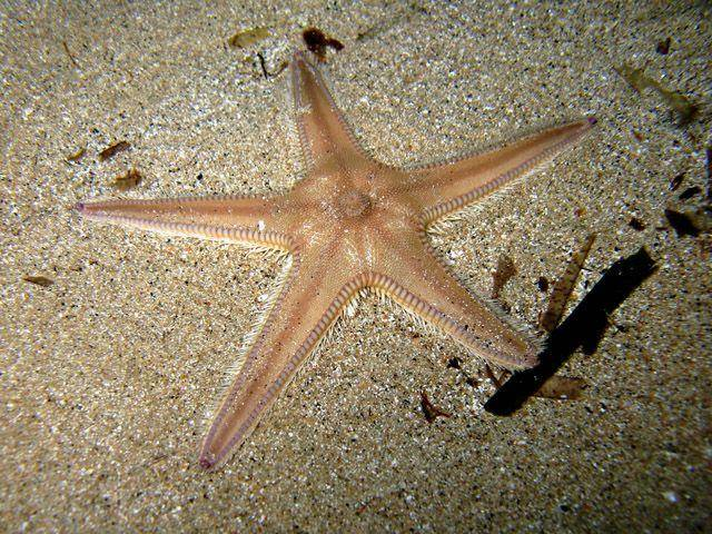 Astropecten irregularis pentacanthus